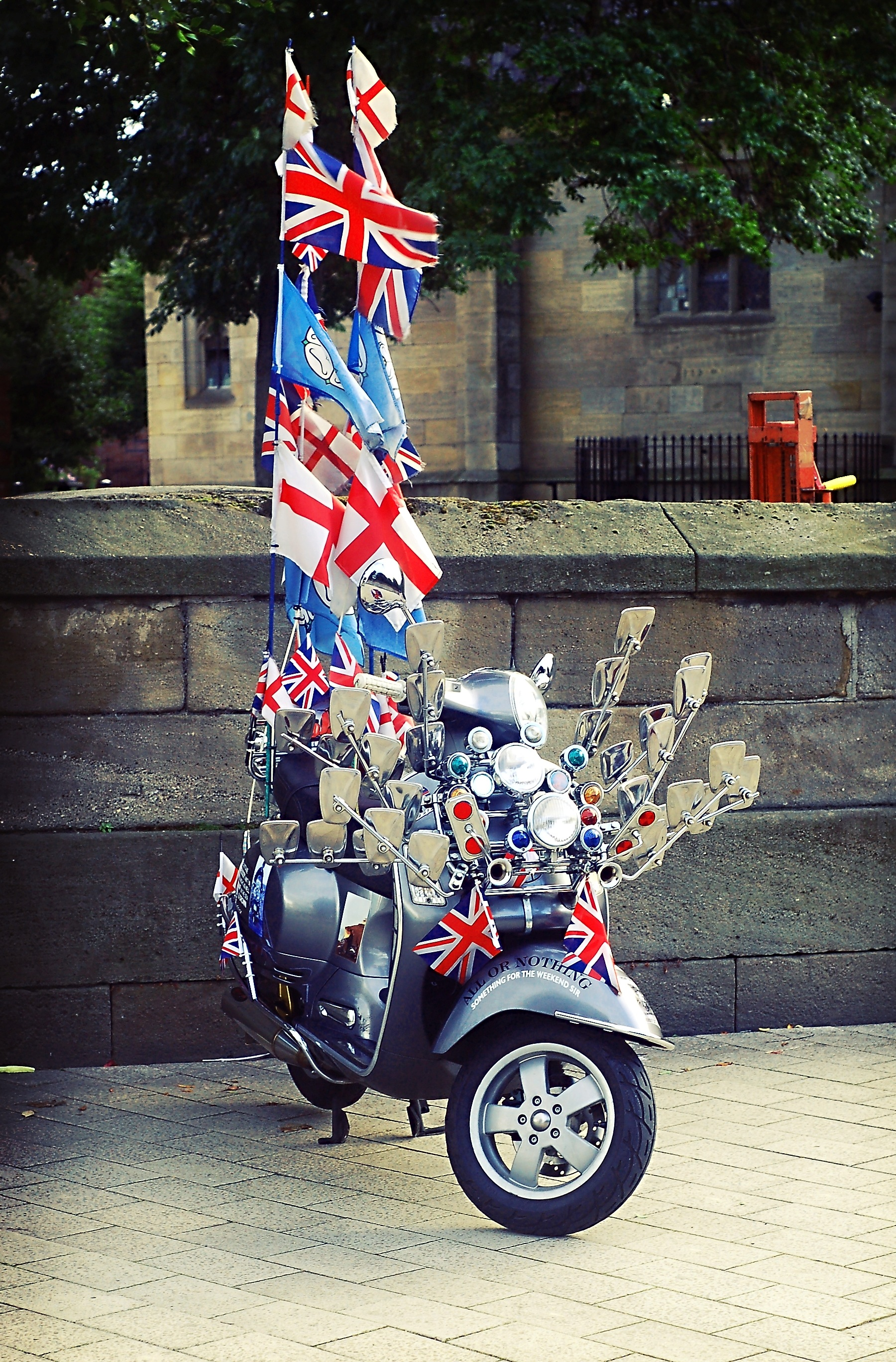 This is England / Taken outside the Palace Bar in Leed.